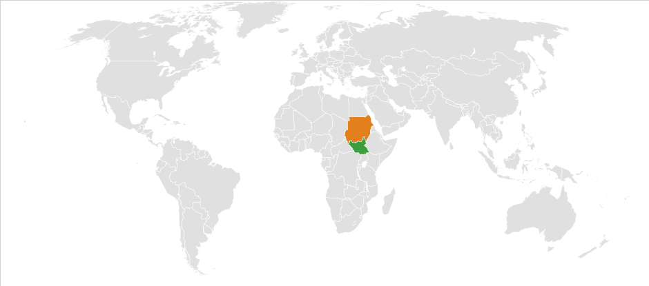 A map showing South Sudan and Sudan